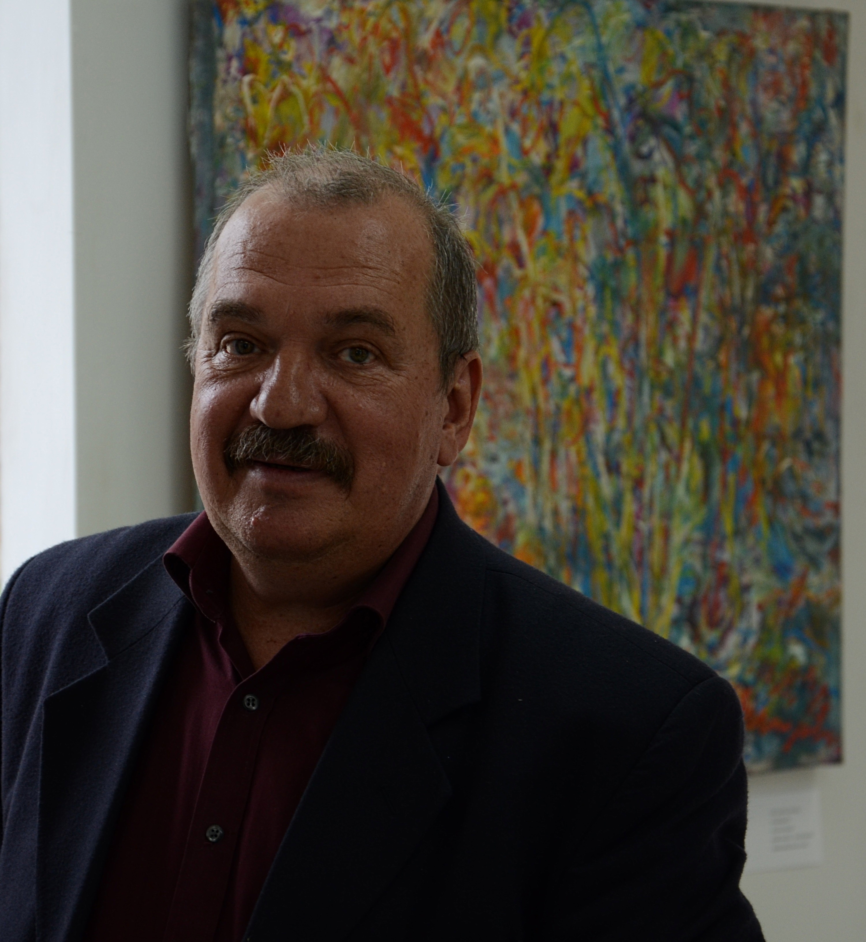 Belarusian art critic Mikola Pogranovsky at the exhibition of paintings by Natalia Chernogolova. Palace of Arts, Minsk, 18 June 2014.